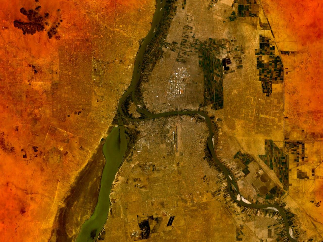 The cities Omdurman (left), Bahri (top right) and Khartoum (bottom right) divided through the Nile river.